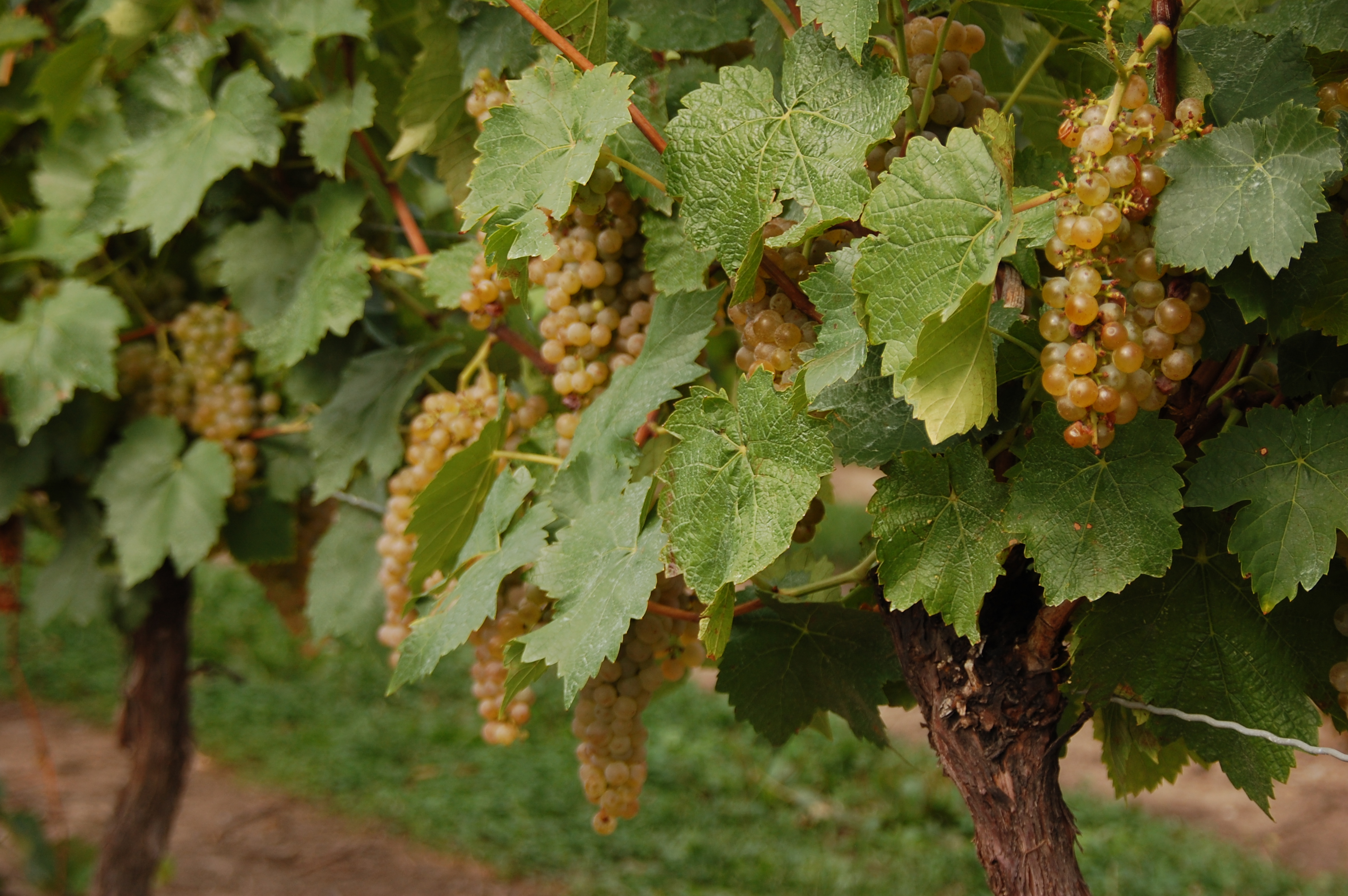 Hybrid Vidal blanc grapes growing in the Canadian wine region of Niagara, Ontario